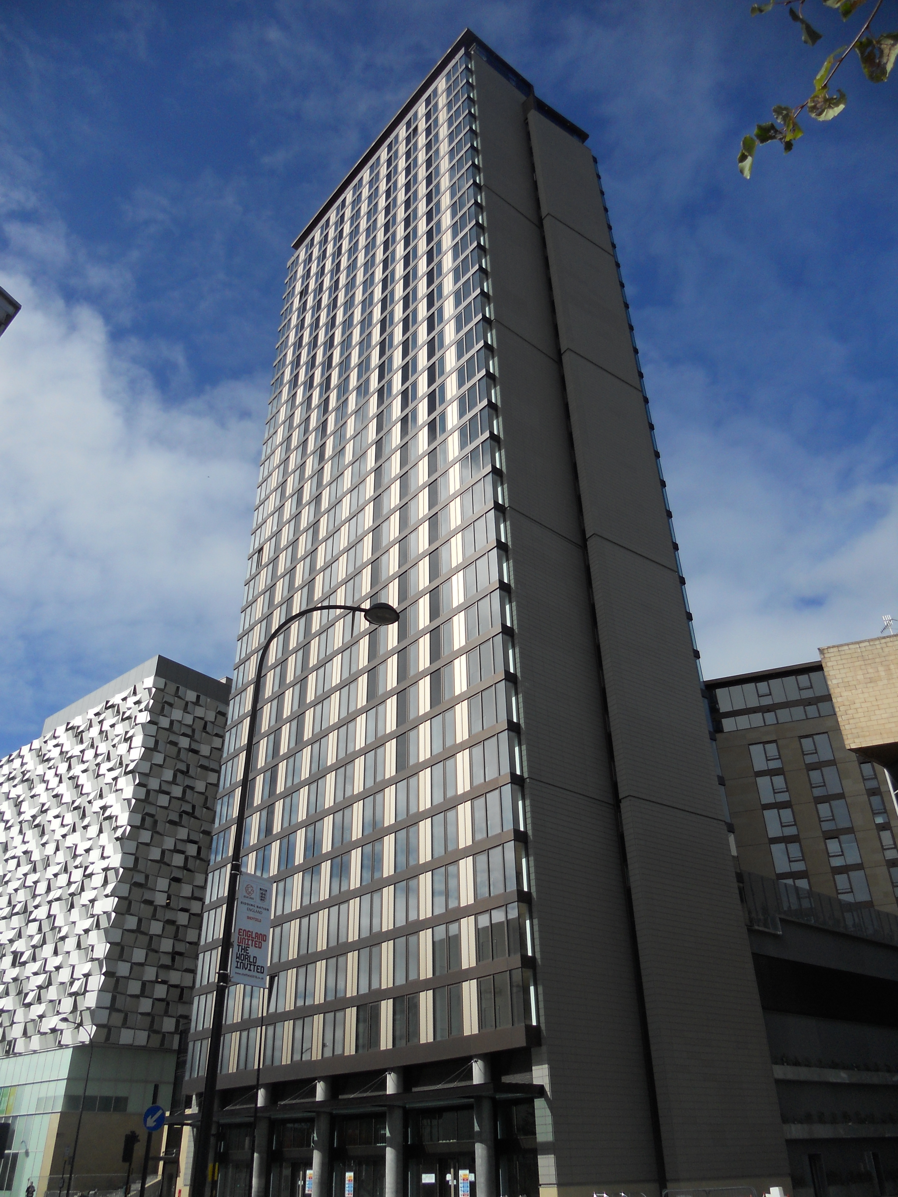 St Pauls Tower, Sheffield